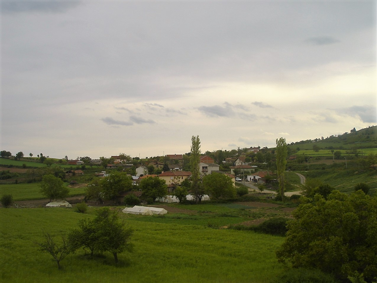 village of Kumarino, near Veles, Macedonia